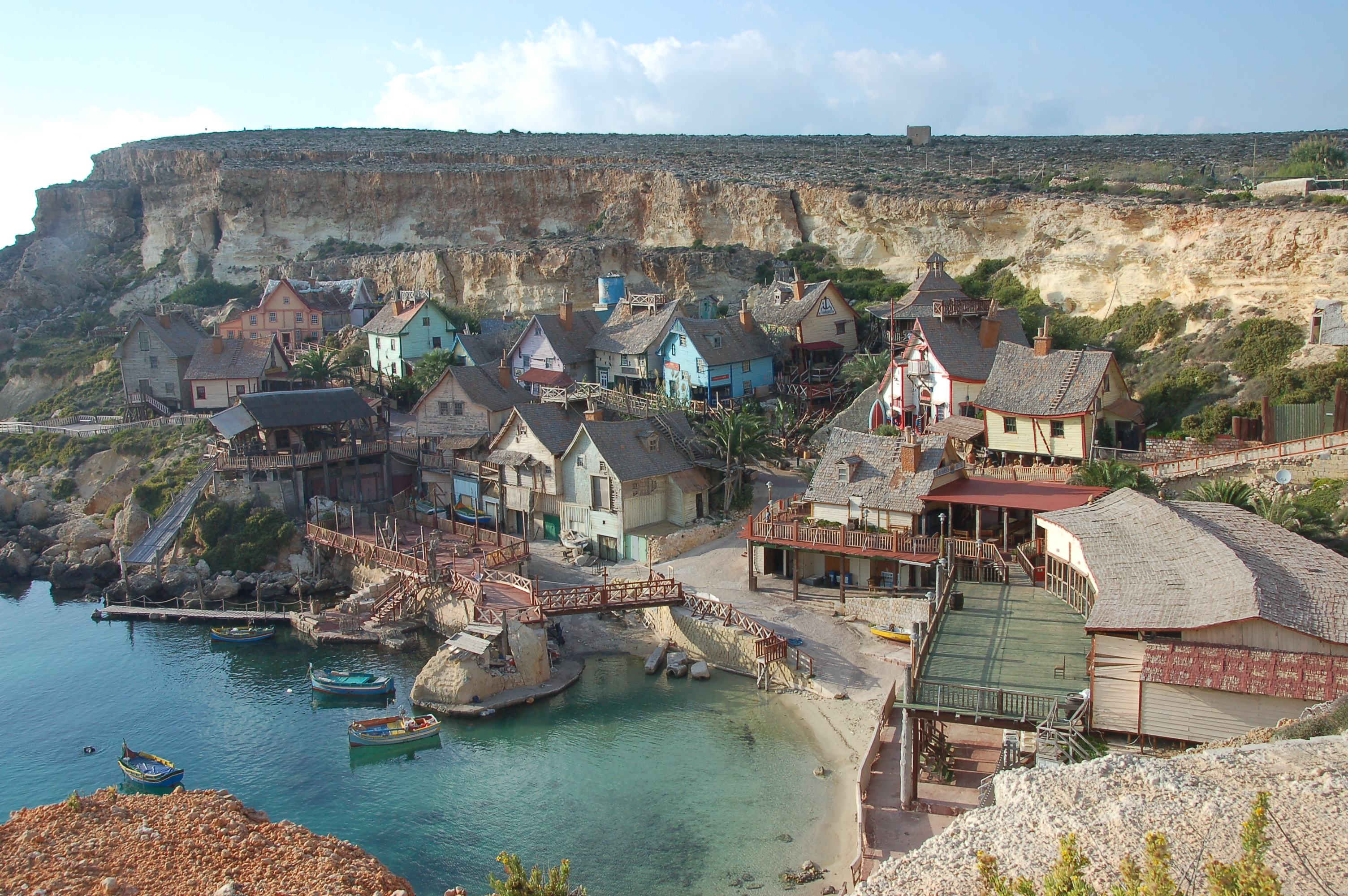 Popeye Village from above